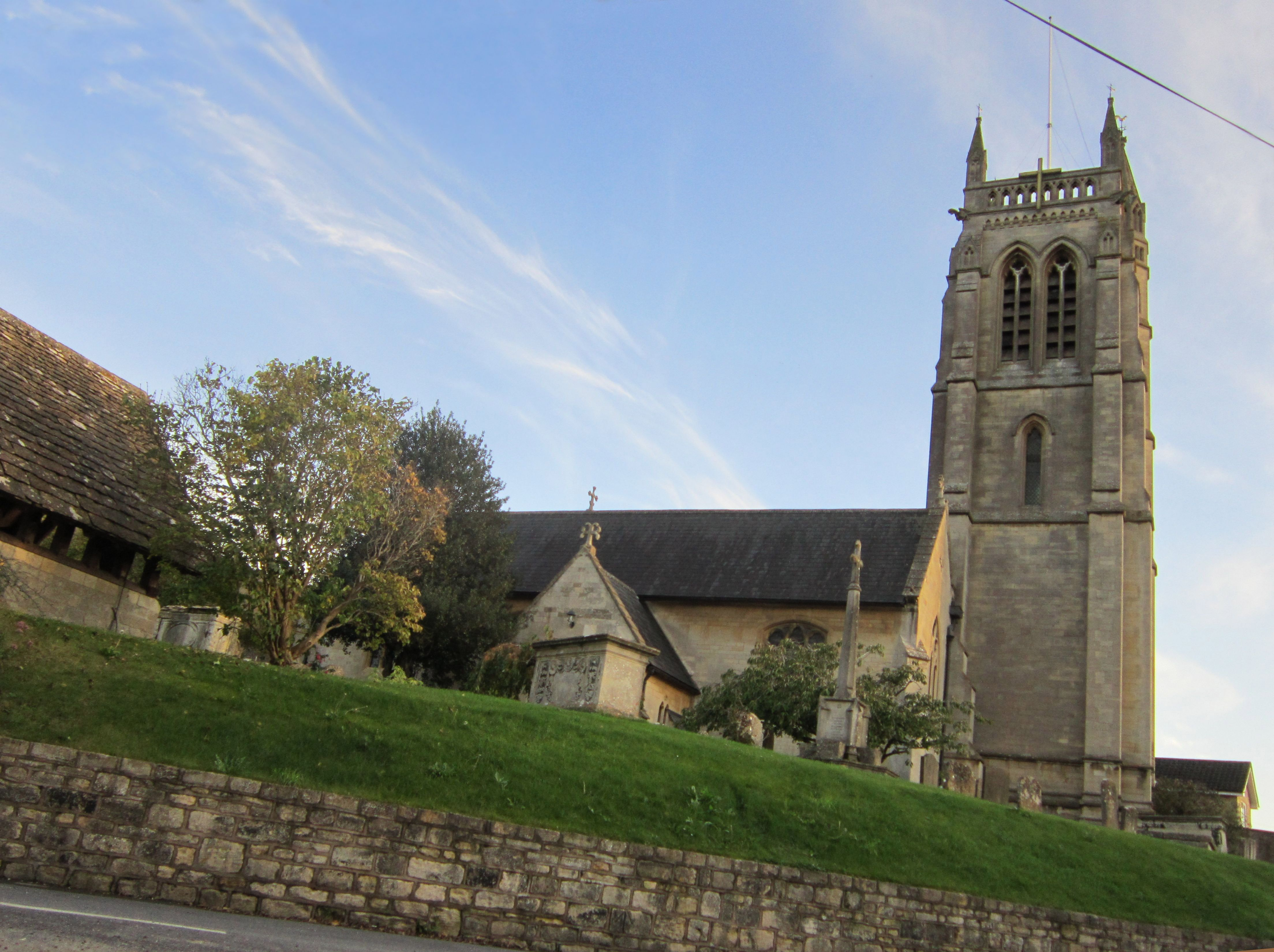 St Swithun's Church, Bathford, Somerset